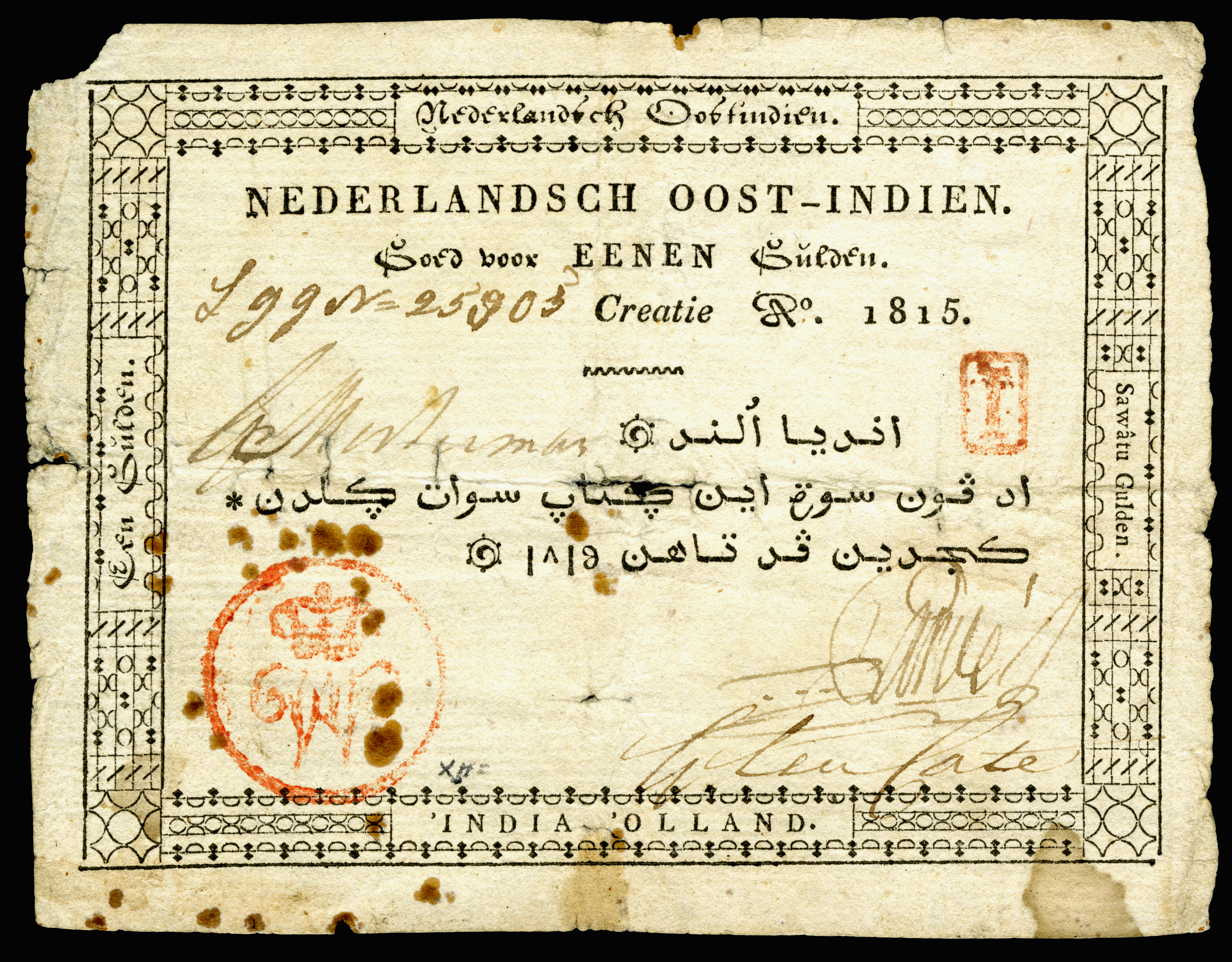 One gulden, 1815 first year of banknote issue for the Kingdom of the Netherlands administration of the East Indies.